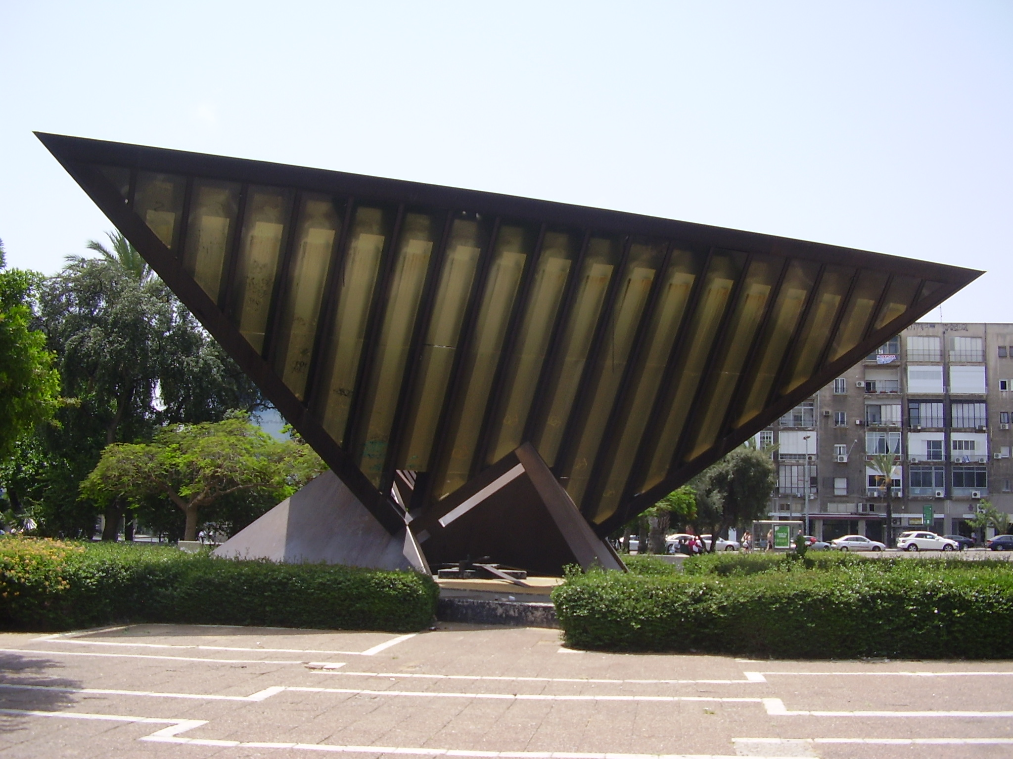 holocaust memorial by igal tomarkin in rabin square, tel-aviv